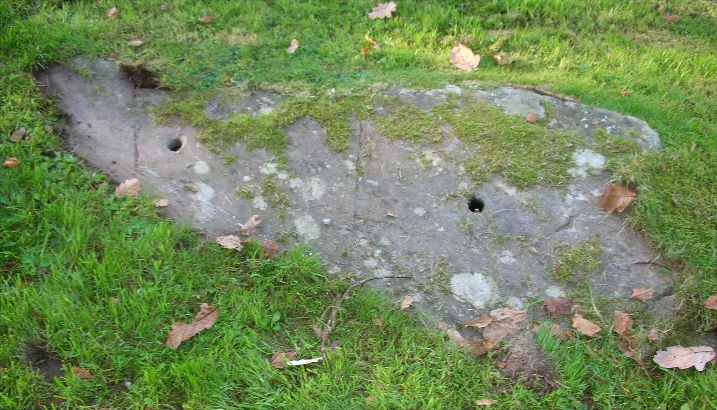 Part of a rock cannon in Harlech, Wales. Two holes in this boulder. There are three holes in an adjacent boulder. Holes were partly filled with gunpowder and ignited to make bangs similar to fireworks.